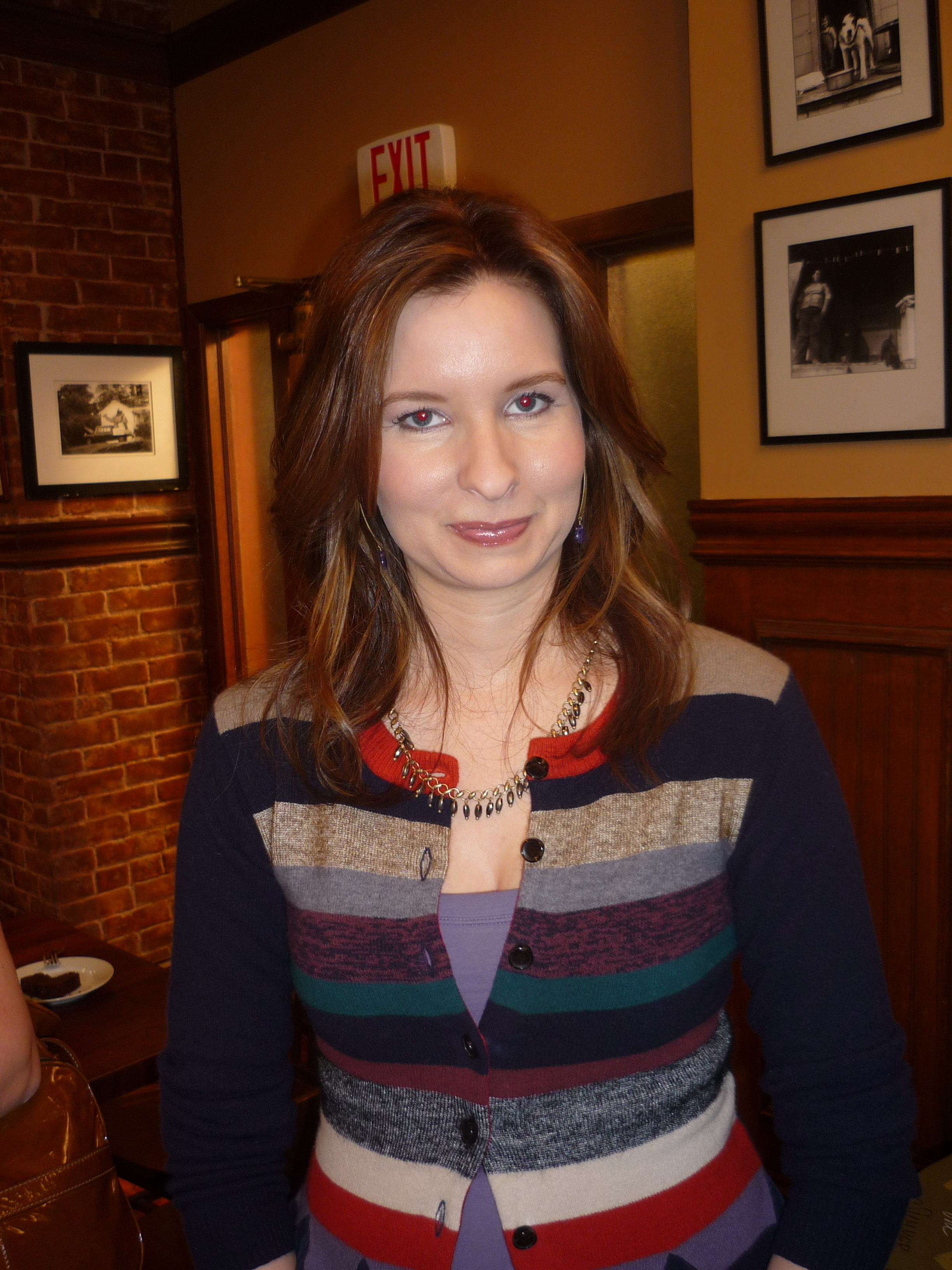 American actress and comedienne Lennon Parham